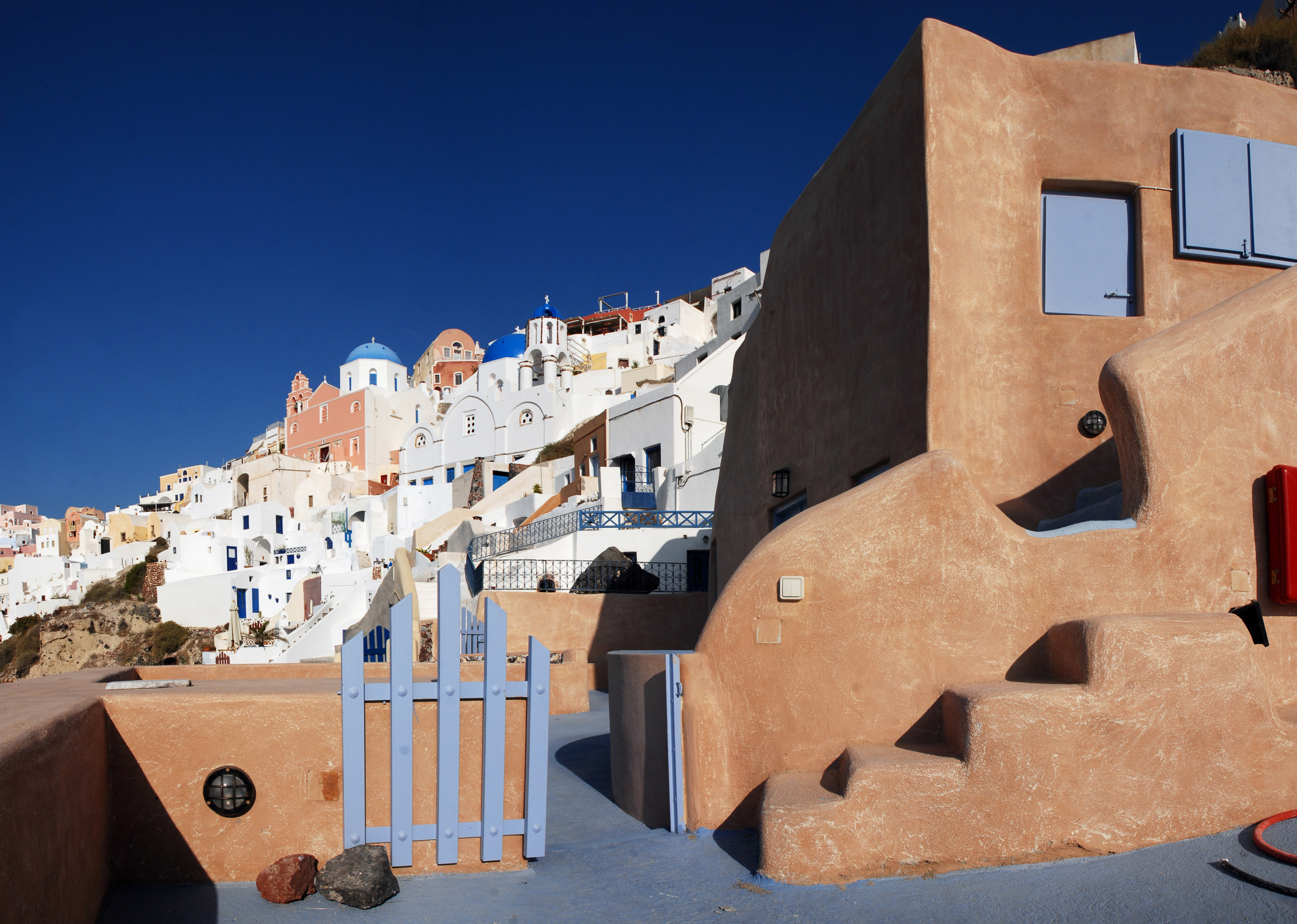 Streets of Firostefani, Santorini island (Thira), Greece.